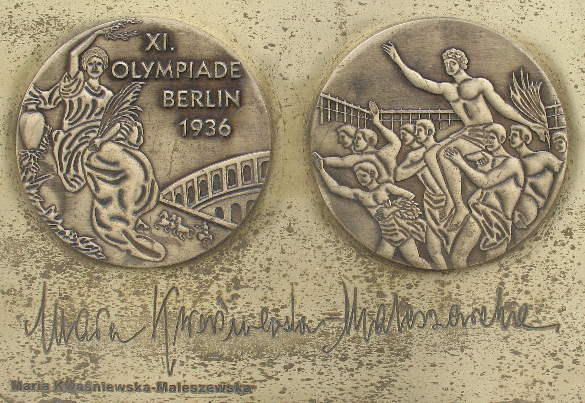 Maria Kwasniewska Maleszewska medal & autograph in Avenue of Sport Stars Dziwnów